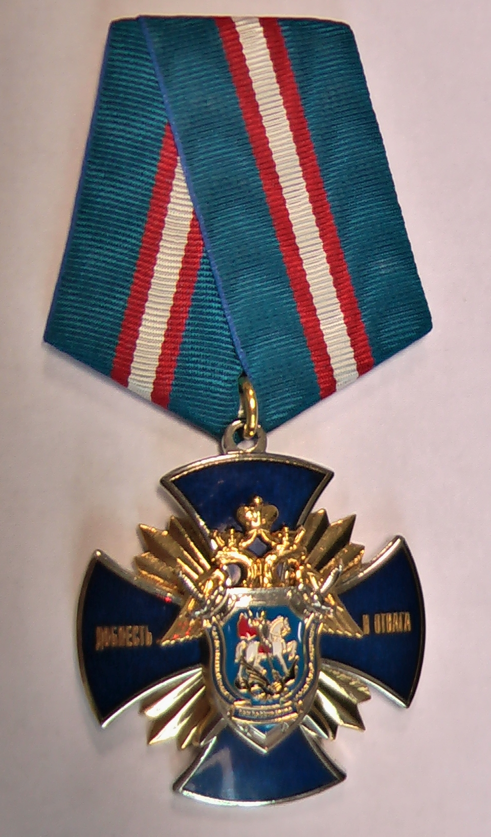 Medal Doblest i otvaga medals (The Russian Federation Prosecutor General Investigative Committee)